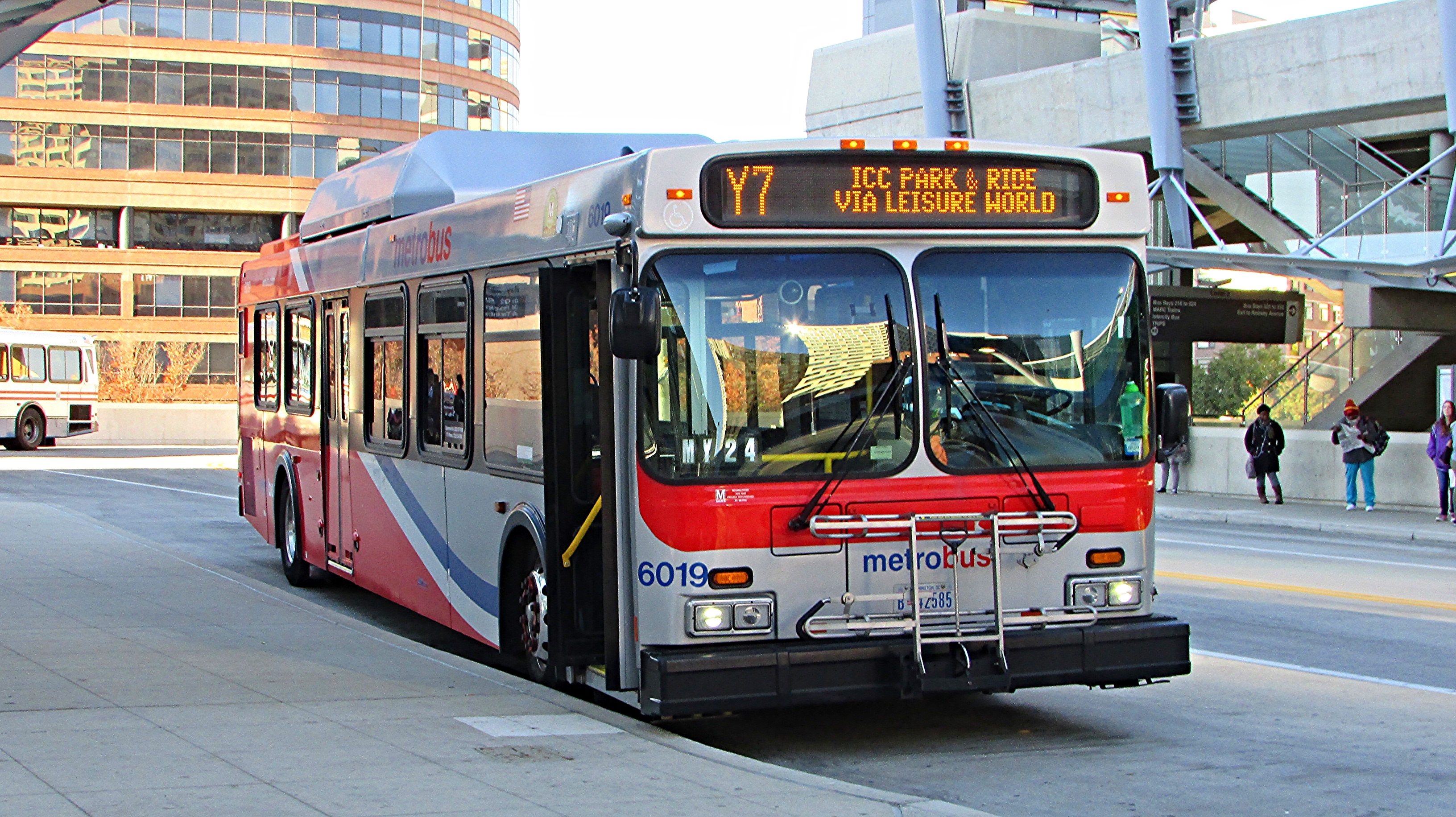 Here is a 2005 WMATA New Flyer DE40LF #6019 on Route Y7 at Silver Spring Transit Center